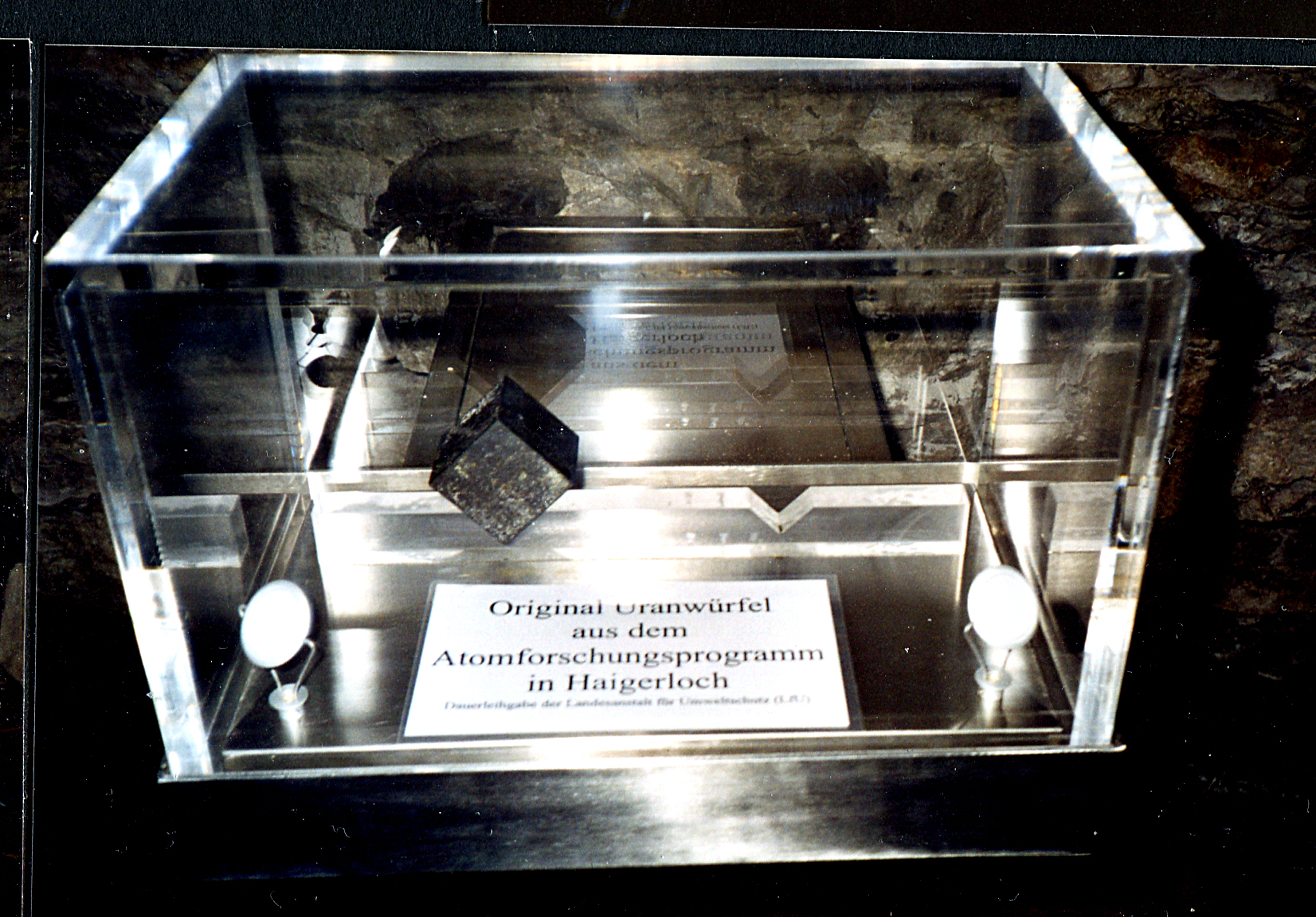 Original cube of uranium from the German experimental nuclear pile at Haigerloch. On display at the Atomkeller-Museum in Haigerloch. The label (in german) reads: Original Uranwürfel aus dem Atomforschungsprogramm in Haigerloch Dauerleihgabe der Landesanstalt für Umweltschutz (LfU) It translates to: Orignal uranium cubes from the nuclear research program in Haigerloch Permanent loan from the National Institute for Environmental Protection